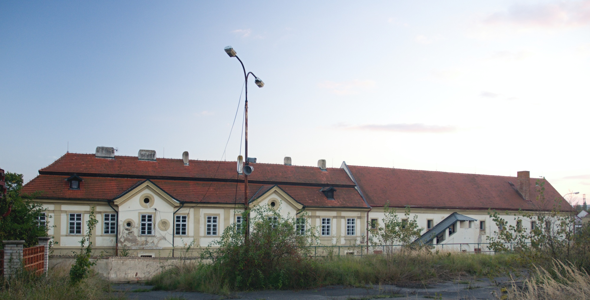 This photograph was taken during the Architecture photographic workshop, Prague, 2014.